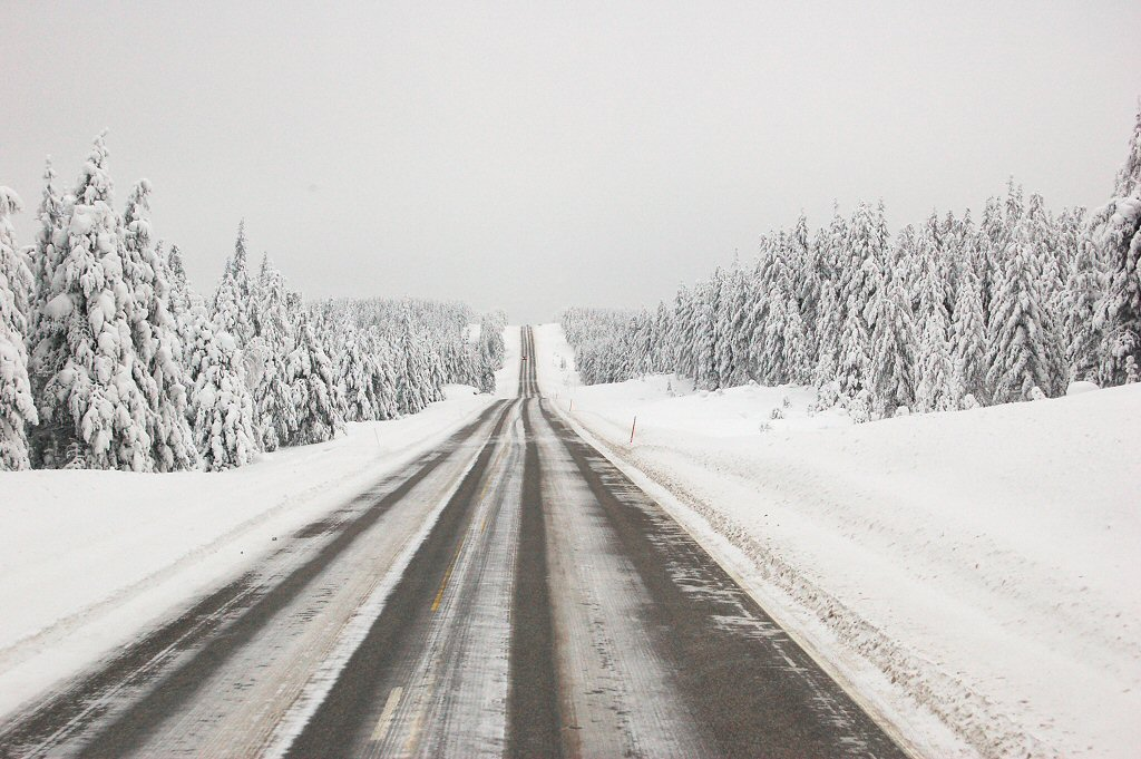 Winter 2005–2006 scenery from national road 20 in Kuusamo, Finland.